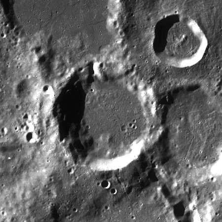 LROC . Moulton at center, Chamberlin at upper left and Vallis Schrödinger at lower right.